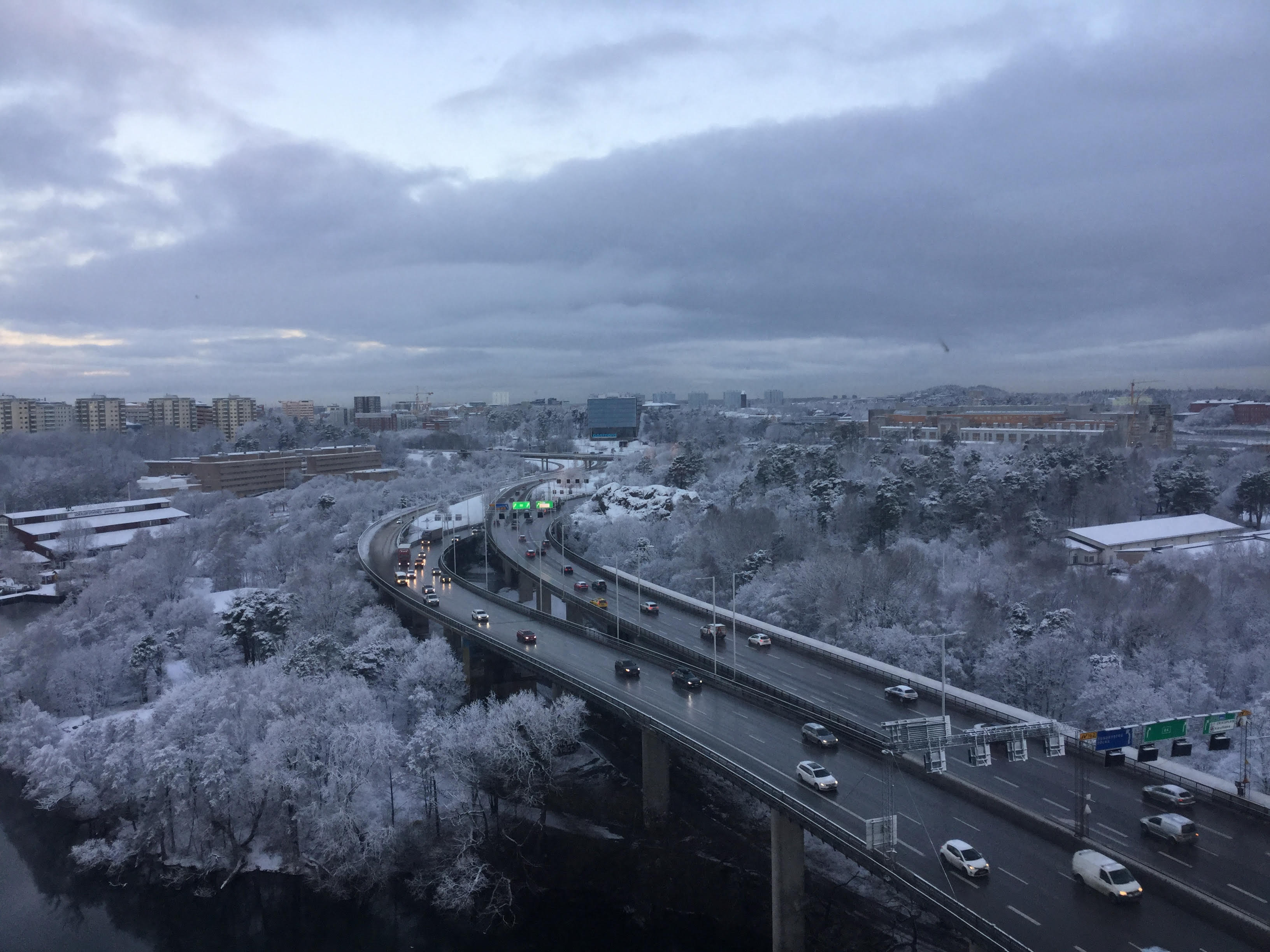 Looking north from Kungsholmen over to Huvudsta on a snowy December day